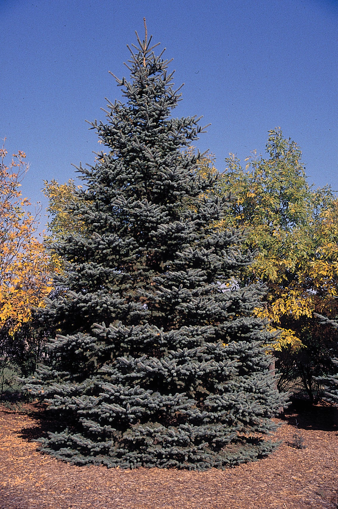 Blue Spruce. Tree.